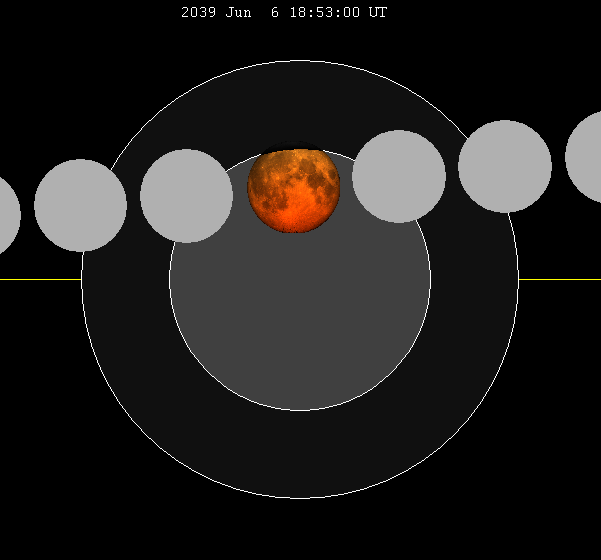 June 2039 lunar eclipse chart of moon's path through the earth's shadow. thumb